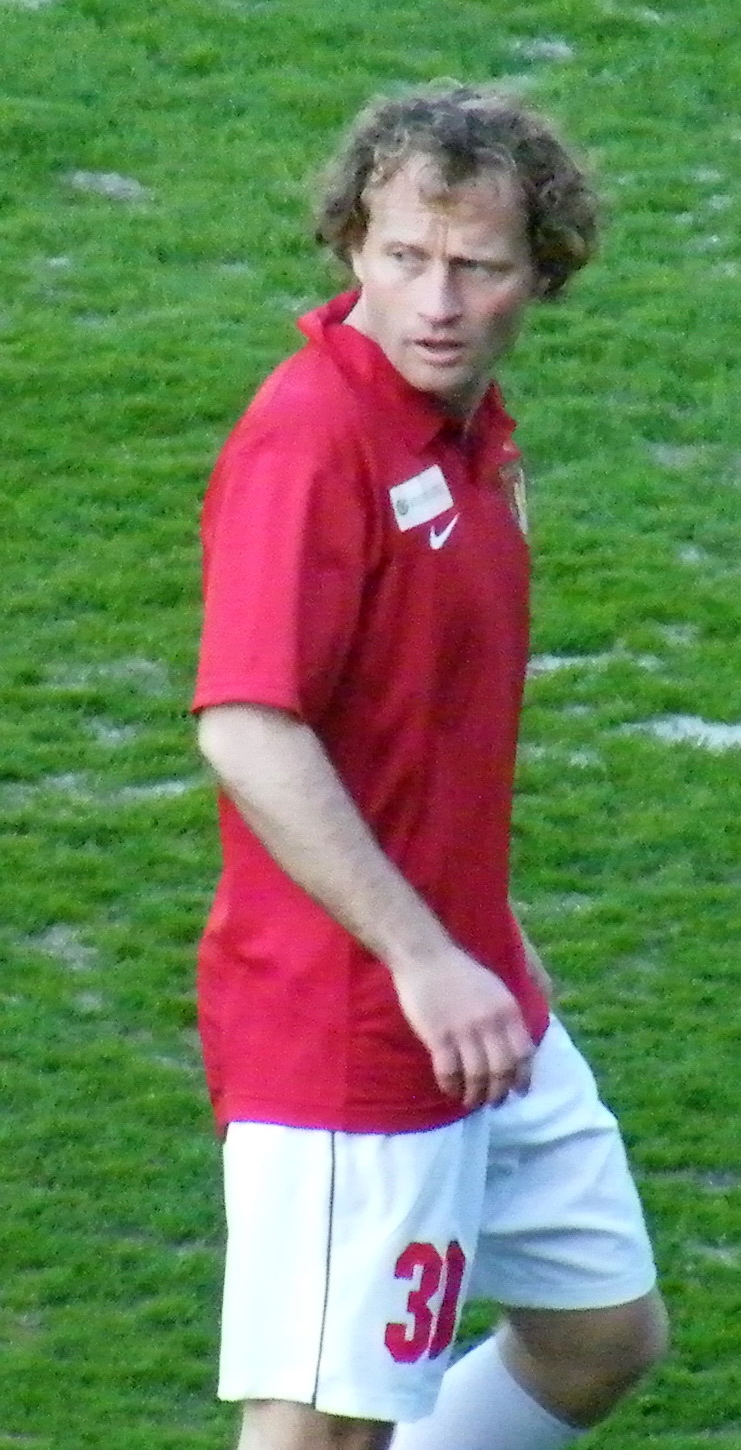 Lukáš Zelenka Czech association football player.